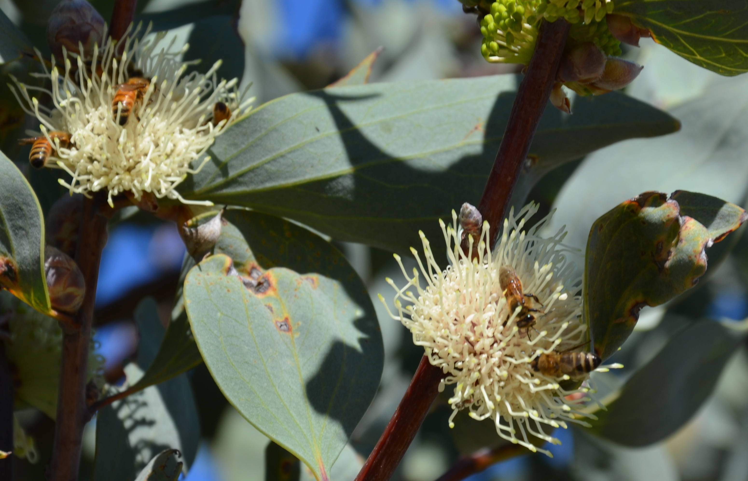 Hakea Petiolaris flowers with bees, Upper Swan, Western Australia, April 2015